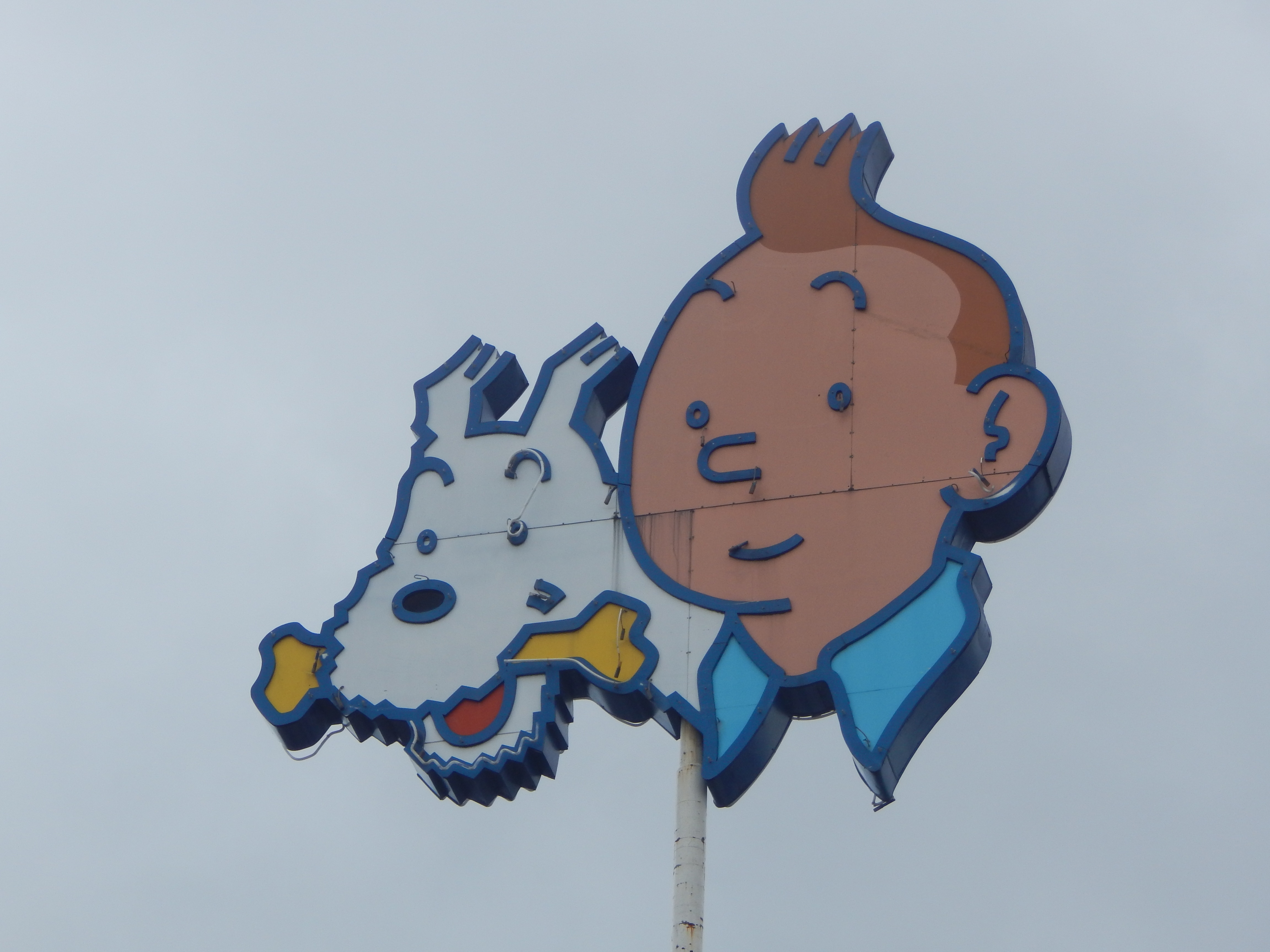 Tintin et Milou at Avenue Paul-Henri Spaak